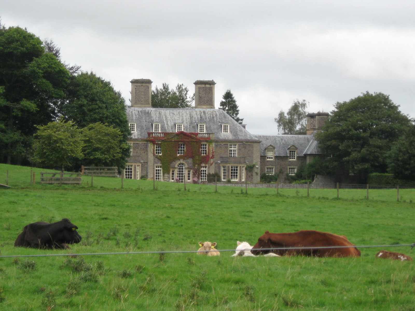 Symington House